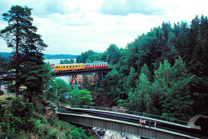 The Dalsland canal at Håverud, Photographer Wigulf